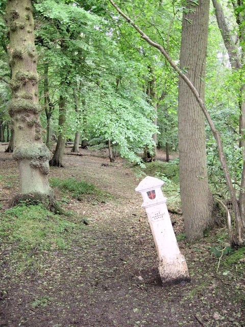 City of London Coal Tax post no 24, Wormley Wood.